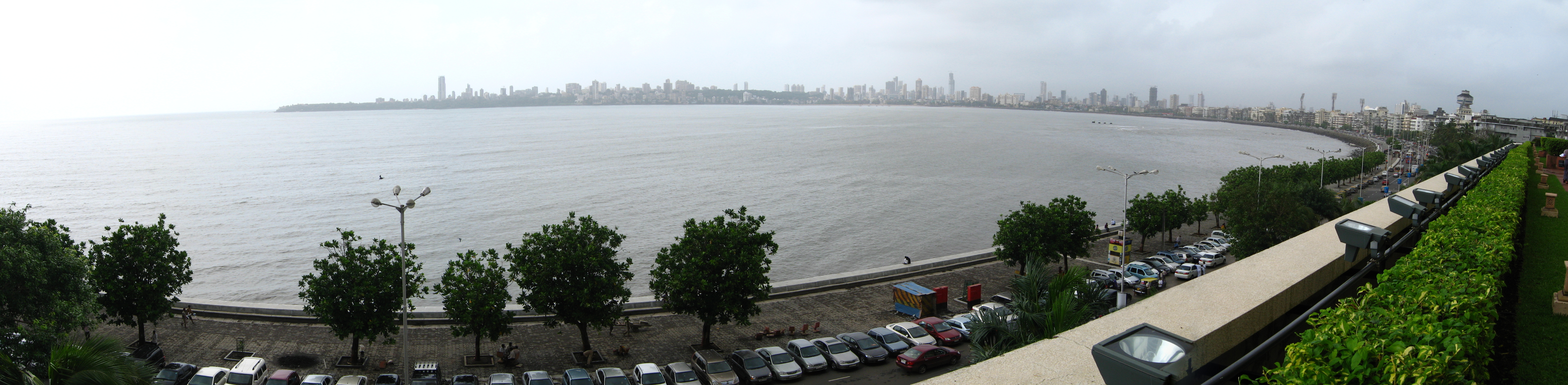 Back Bay, Mumbai, India. Photo taken from the Oberoi Trident.